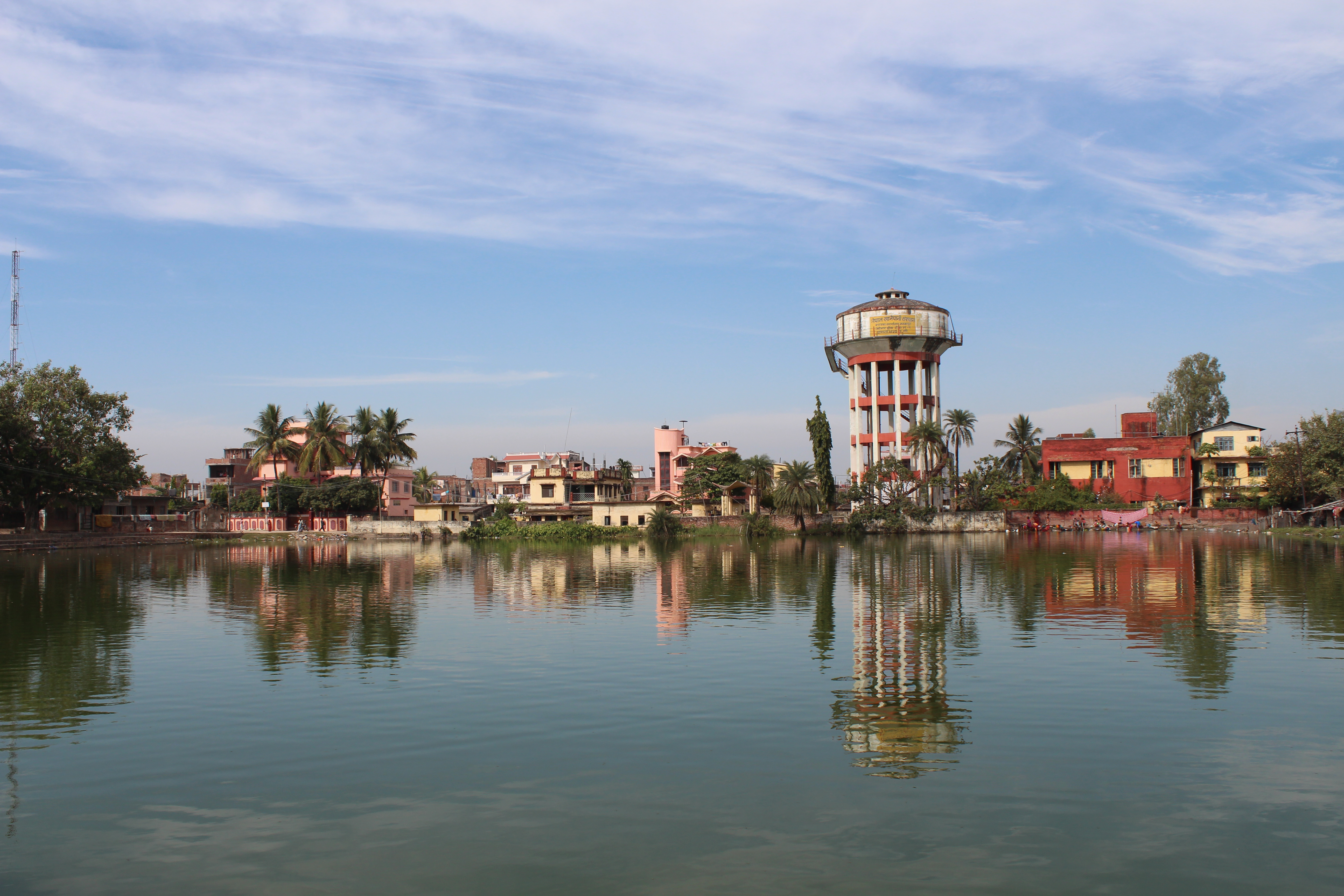 Oldest water tank (Pani Tanki) that supplies drinking water to most households in Janakpur. The pond seen in this photo is named Argaza Pokhair (pond).